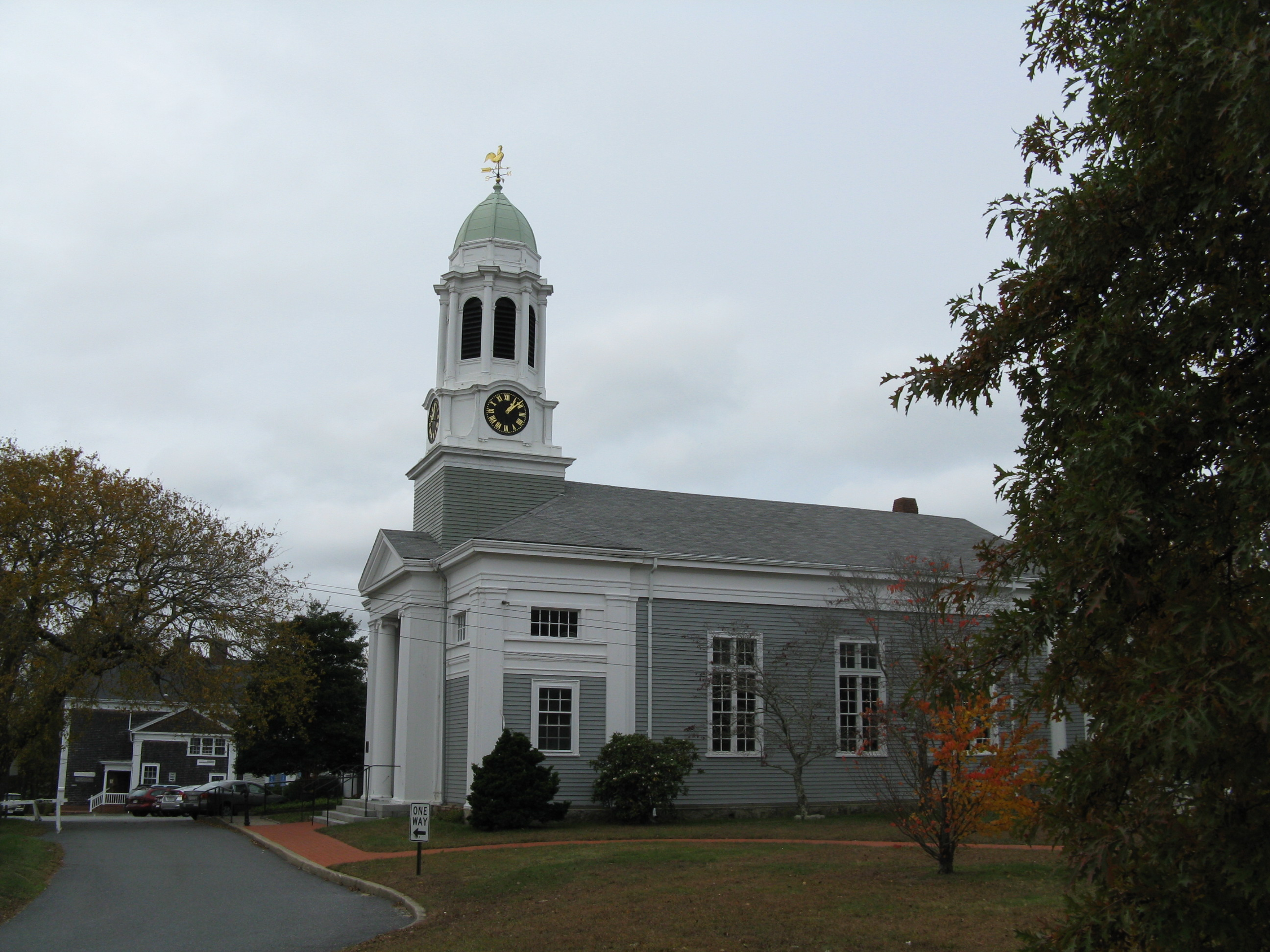 The Barnstable Unitarian Universalist Church in Barnstable Massachusetts